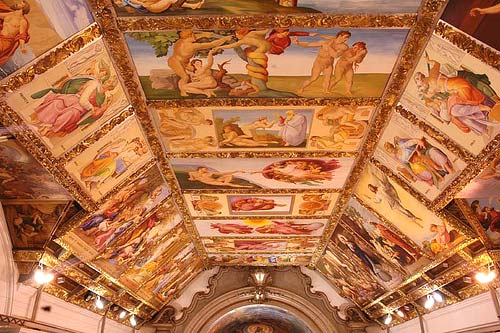 Nossa Senhora do Brasil Church - Picture of the seeling